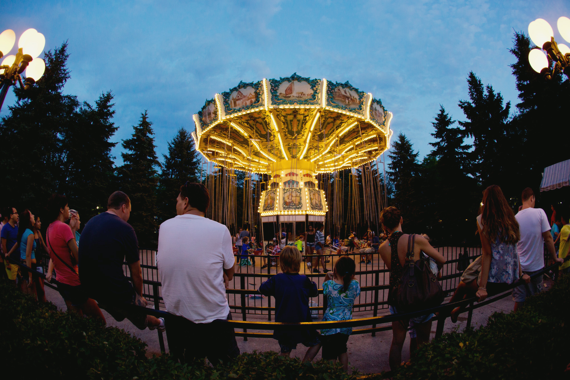 Swings of the Century at night in Canada's Wonderland.